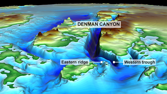 The shape of the bedrock under Denman Glacier can explain the asymmetric ice retreat occurring mainly on its western flank